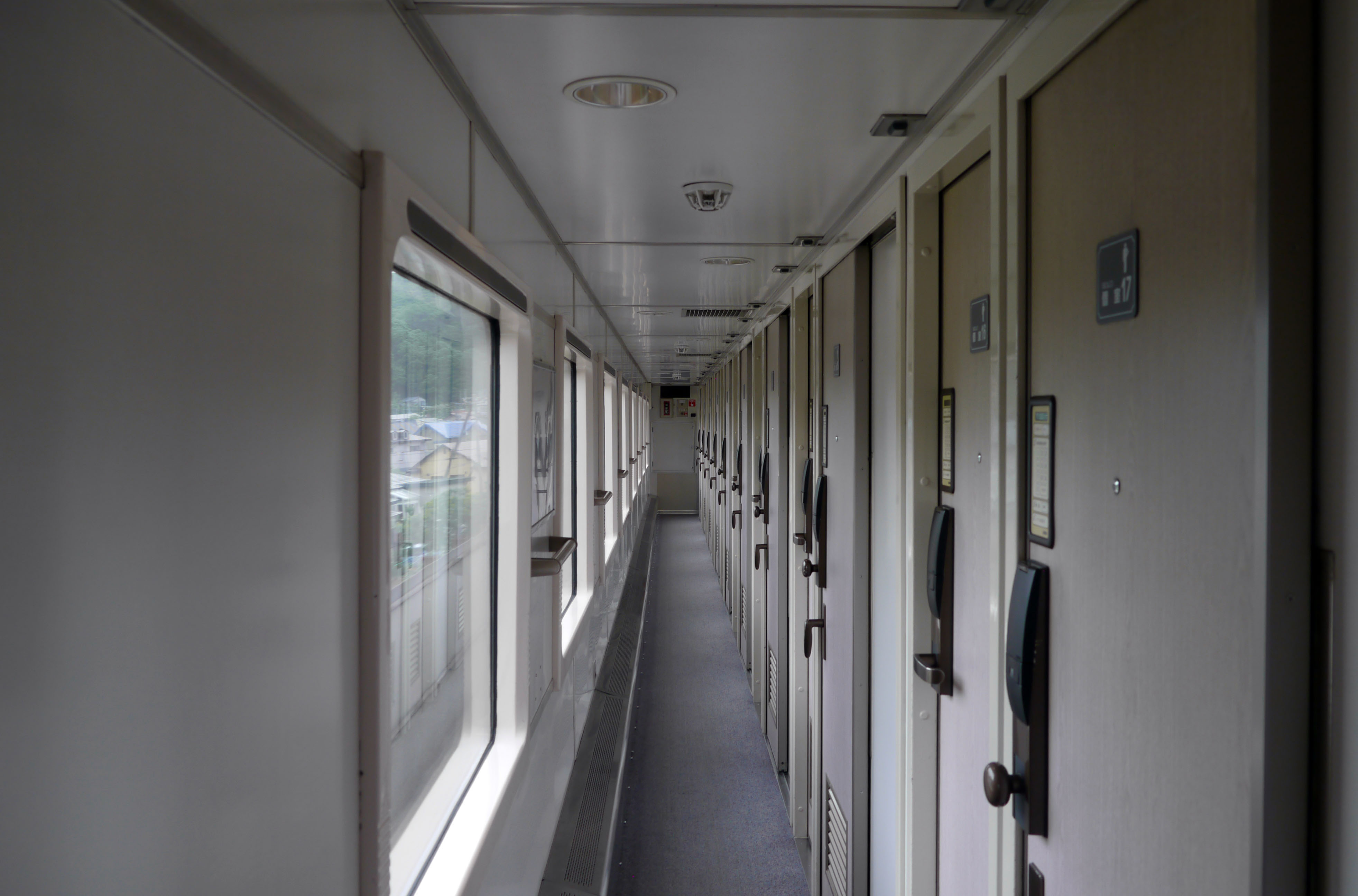 Corridor of a car with type B sleeping compartments on the Hokutosei sleeper train